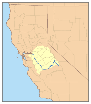 This is a map of the San Joaquin River course and its watershed, the San Joaquin Basin — in the San Joaquin Valley, California. I, Pfly, made it, based on USGS data.